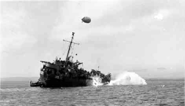 LST-32, launching an LCT, date and place unknown. Official US Navy photo taken from